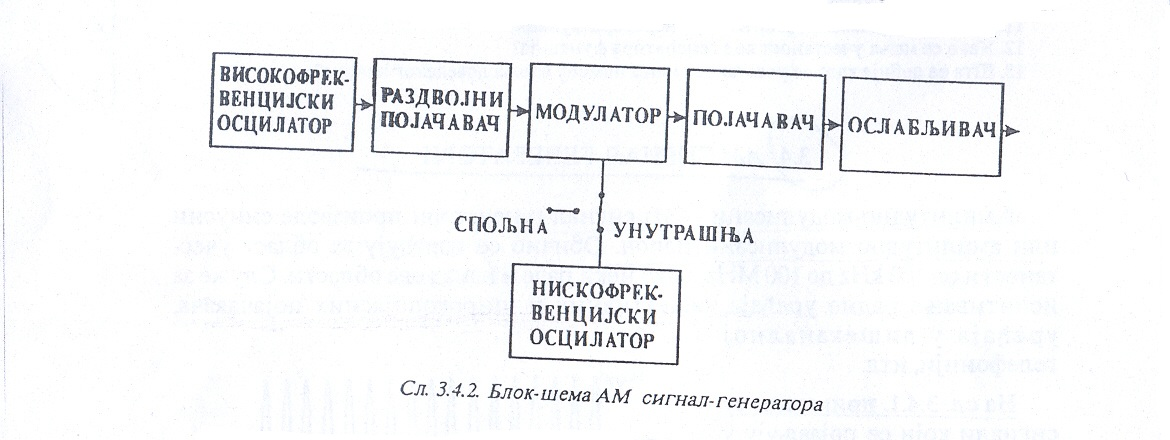 AM signal Generator2